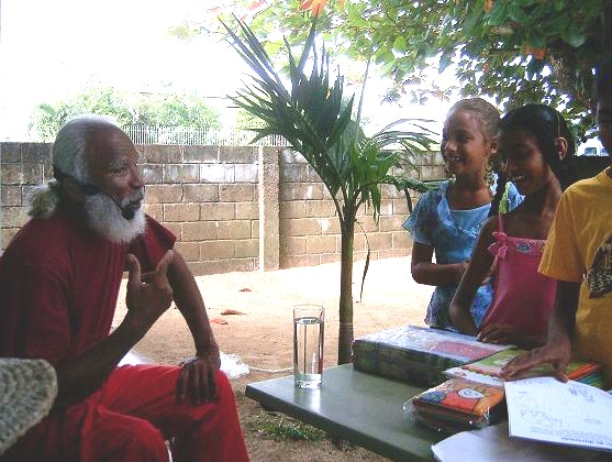 Surinamese poet and storyteller Guillaume Pool, with kids at a children's literature festival of Bukutori